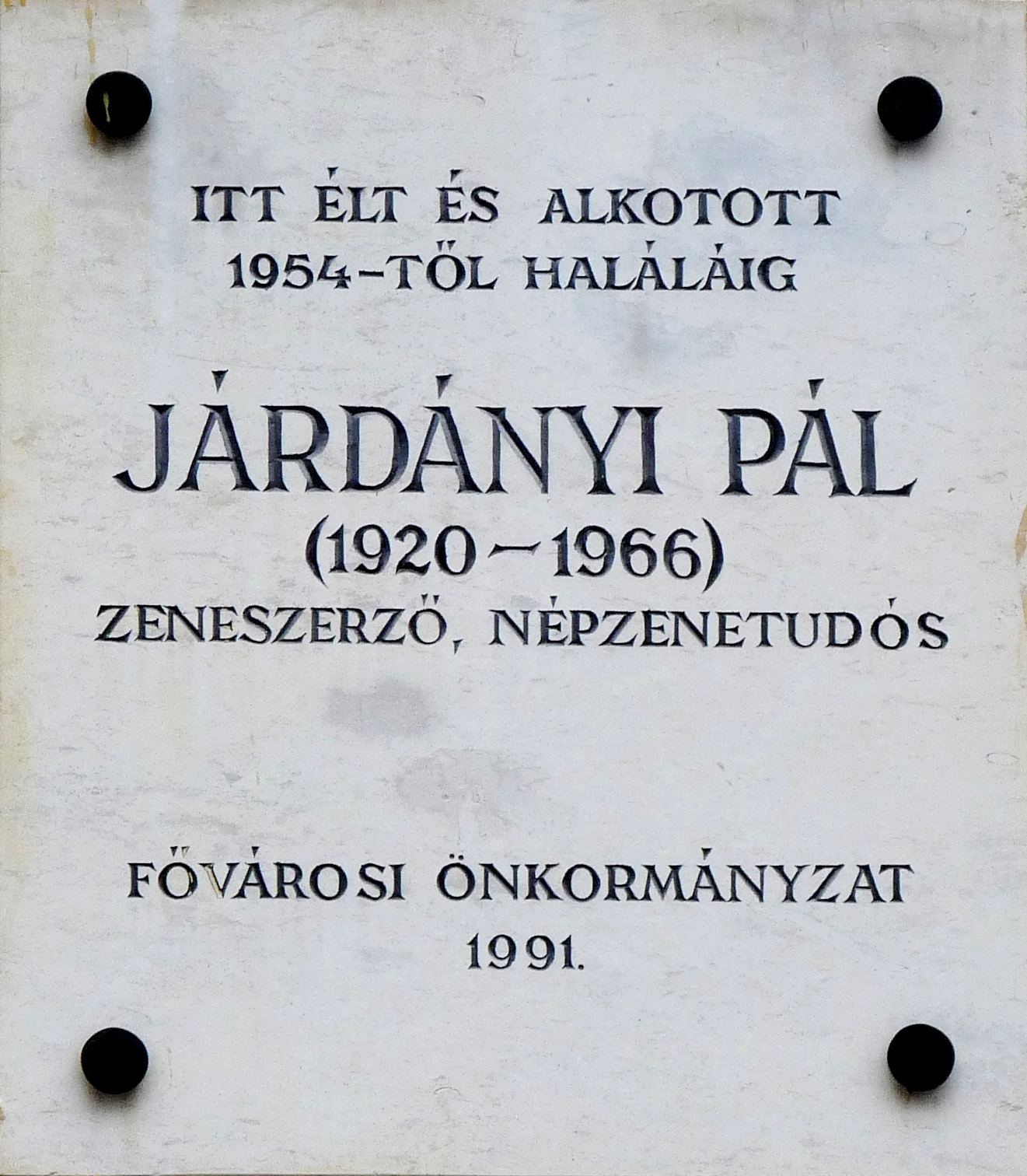 Pál Járdányi commemorative plaque in Budapest District II, Hűvösvölgyi Street No 35.